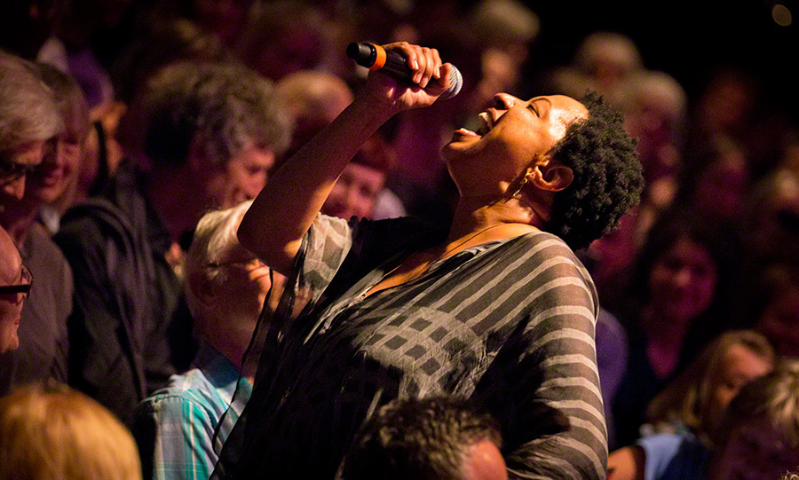 Lisa Fischer and Grand Baton performs at Cosmopolite in Oslo on 12. May 2016. Lineup:JC Maillard (guitar)Thierry Arpino (drums)Aidan Carroll (bass)Lisa Fischer (vocal)